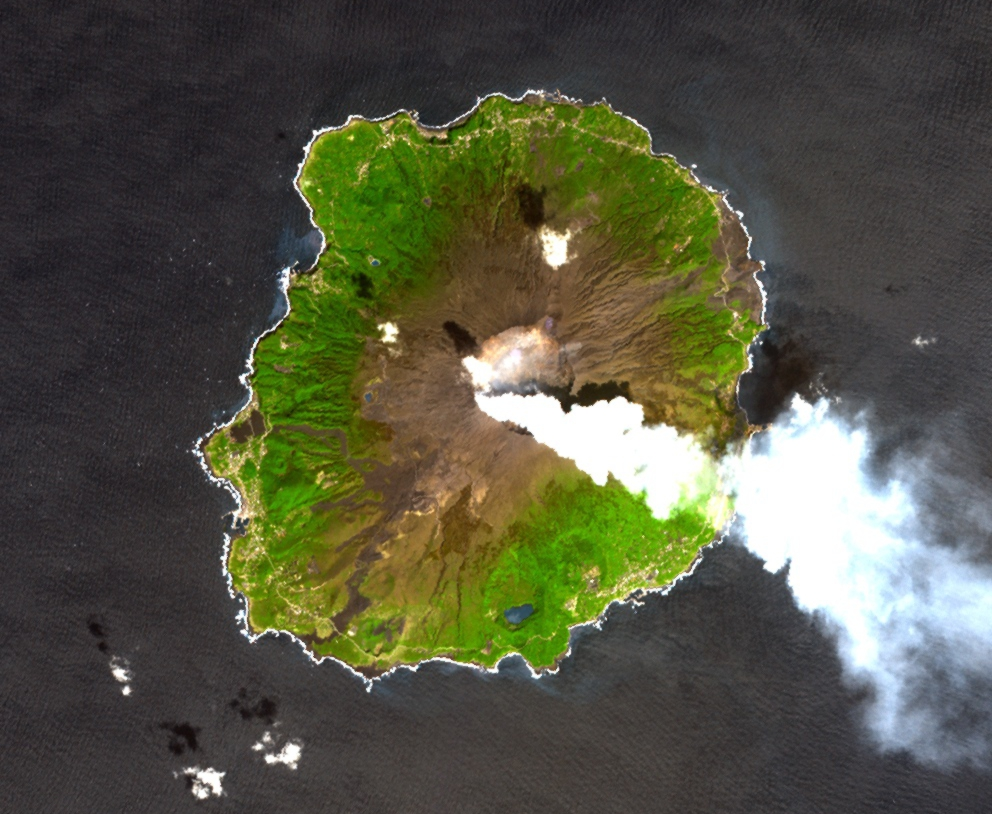 Miyake-jima, 2001-04-01